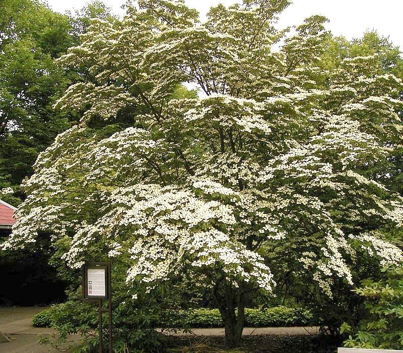 Cornus kousa var. chinensis, BG Bochum, Germany